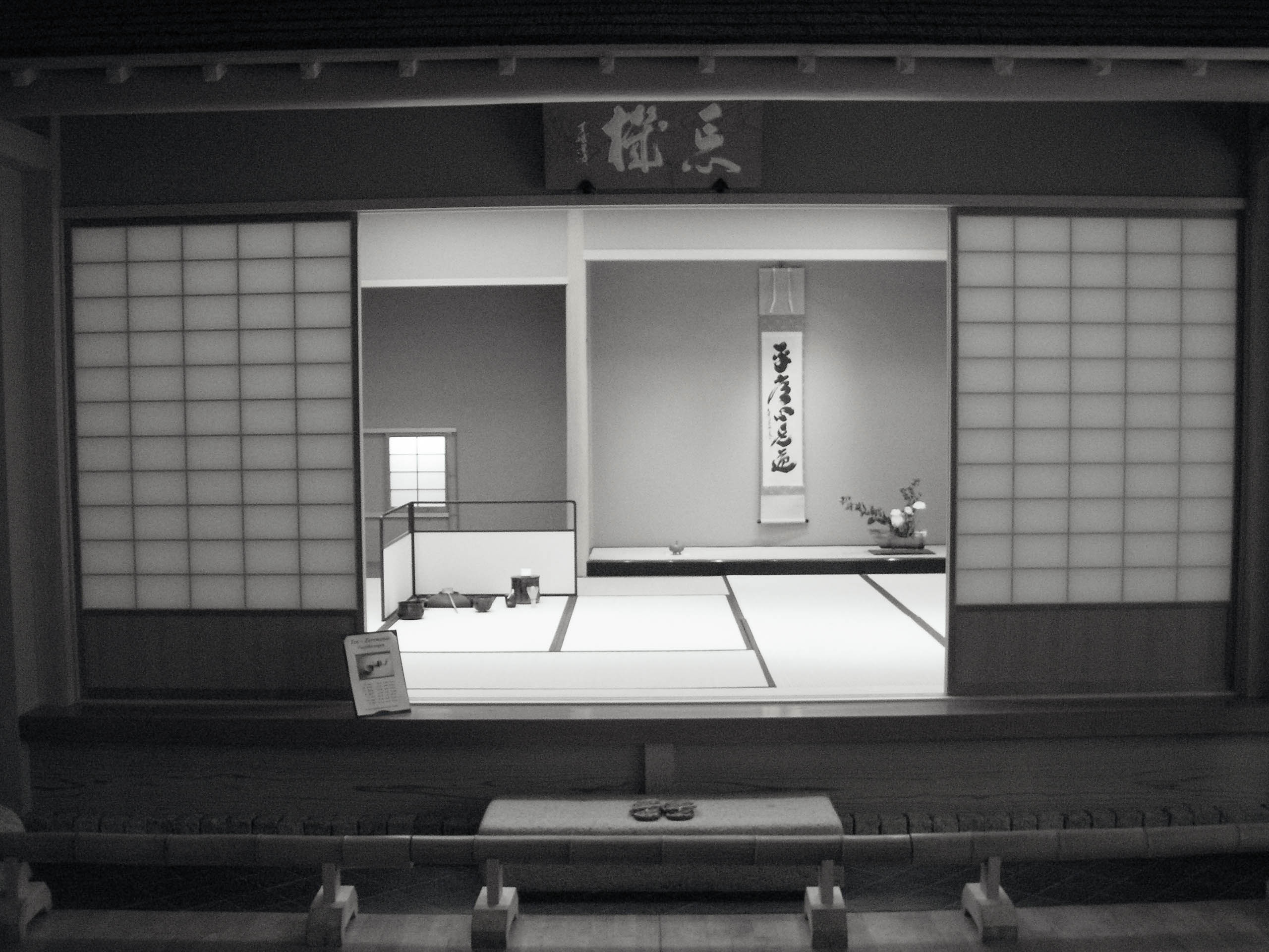 Inside view of Japanese Tea House, located at the Museum für Ostasiatische Kunst, Berlin-Dahlem (see Museum für Asiatische Kunst). Museum of Asian Art Native nameMuseum für Asiatische KunstParent institutionBerlin State Museums LocationBerlinCoordinates52° 27′ 21″ N, 13° 17′ 33″ E Established4 December 2006Web page[1]Authority control : Q370045 VIAF: 153451772 ISNI: 0000 0004 4893 5104 LCCN: no2007157600 GND: 10163291-5 SUDOC: 146108868 WorldCat institution QS:P195,Q370045